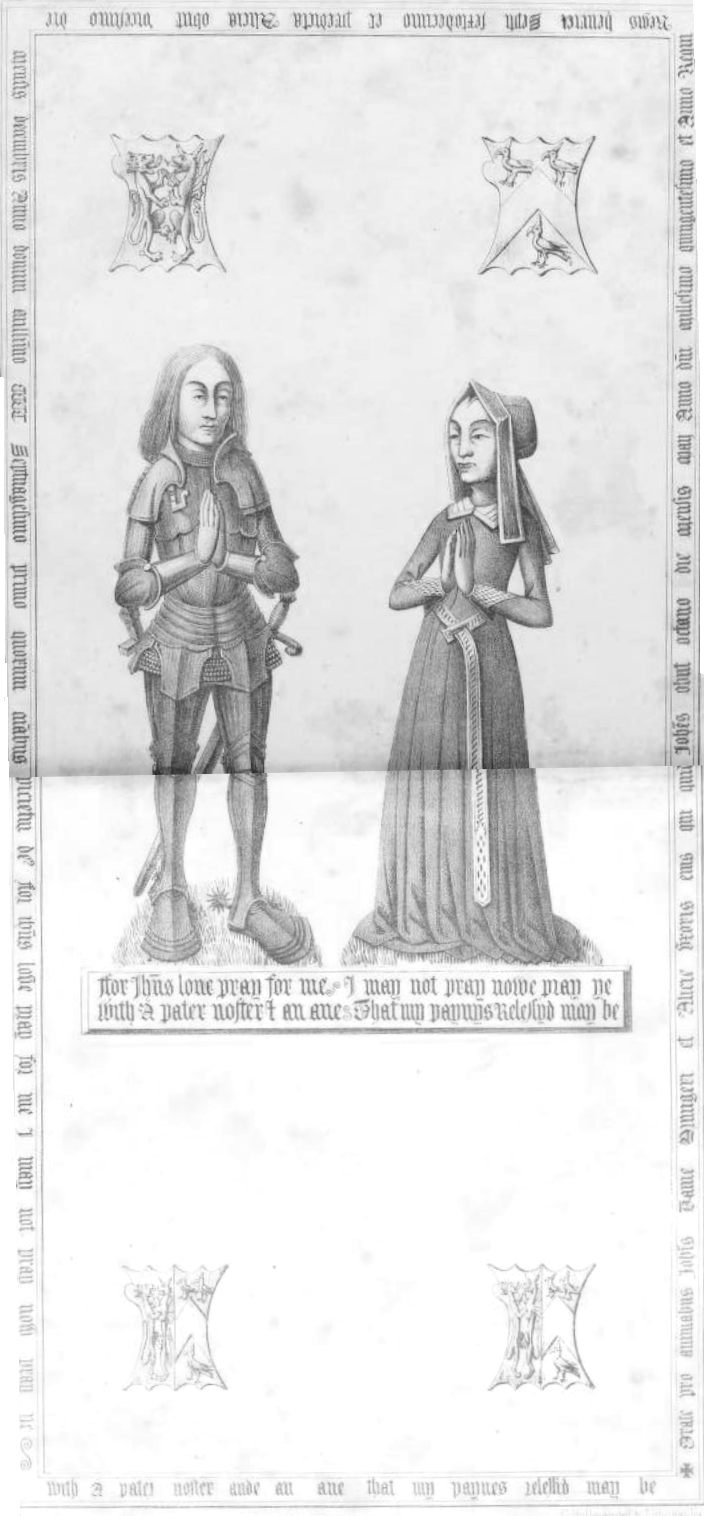 Drawing of ledger stone with monumental brasses of John Tame (d. 8 May 1500) of Fairford and his wife Alice Twynyho (d. 20 December 1471), St. Mary's Church, Fairford, Gloucestershire, England. John Tame was a wealthy wool merchand who built Fairford Church.